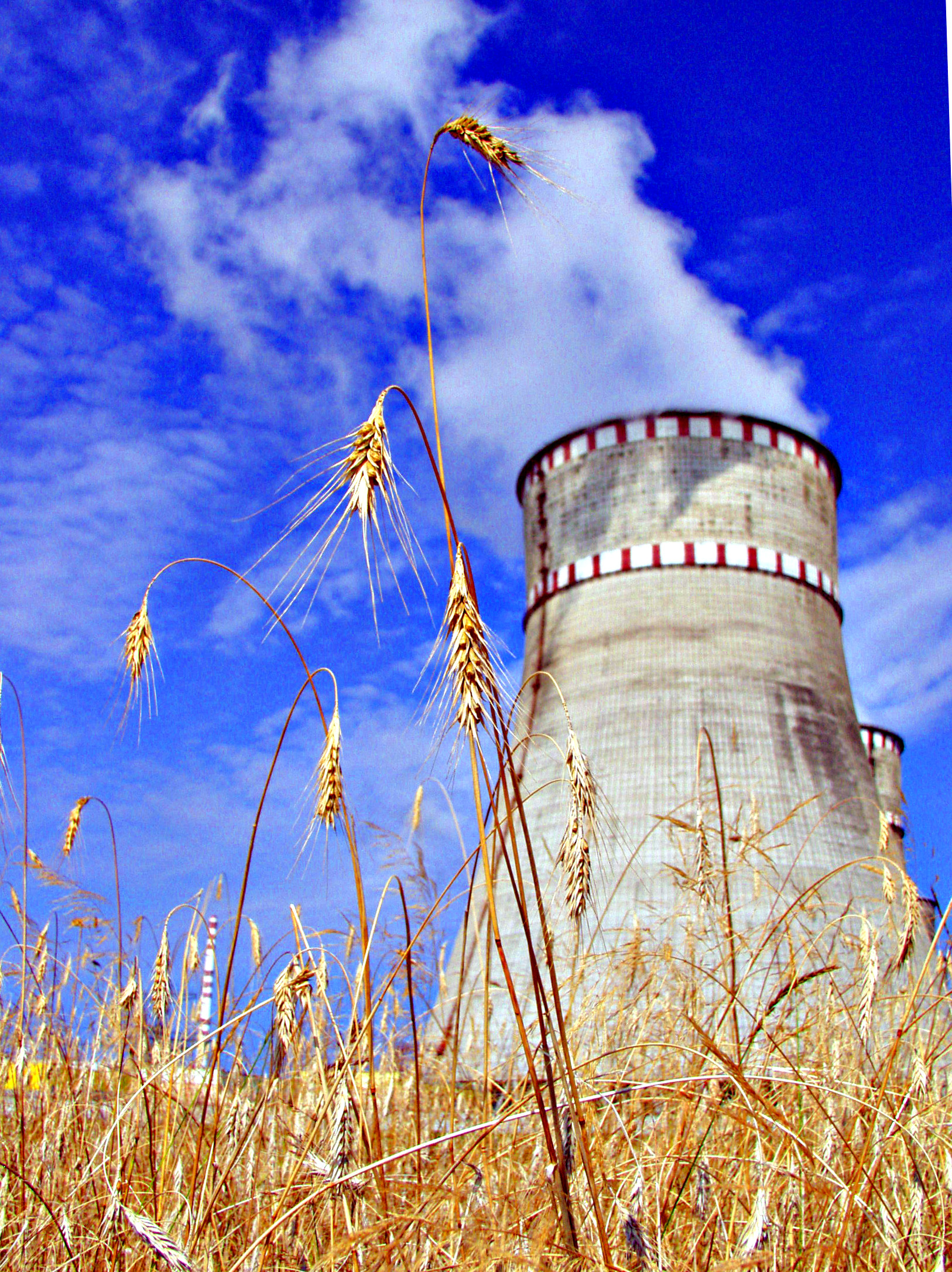 Rivne NPP in Kuznetsovsk. Ukraine.